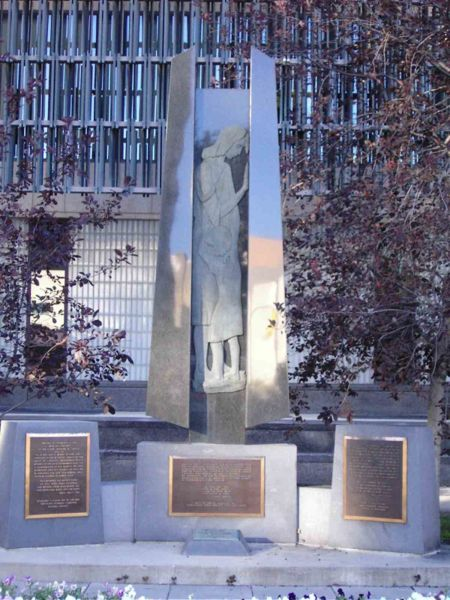 "This memorial, sculptured by Roman Kowal, was a gift to the city of Winnipeg from the members and friends of the Winnipeg branch, Ukrainian Canadian Committee. It was unveiled by his worship Mayor William Norrie, June 24th, 1984" (From [1]) Monument erected: 24 June 1984, Winnipeg, Canada